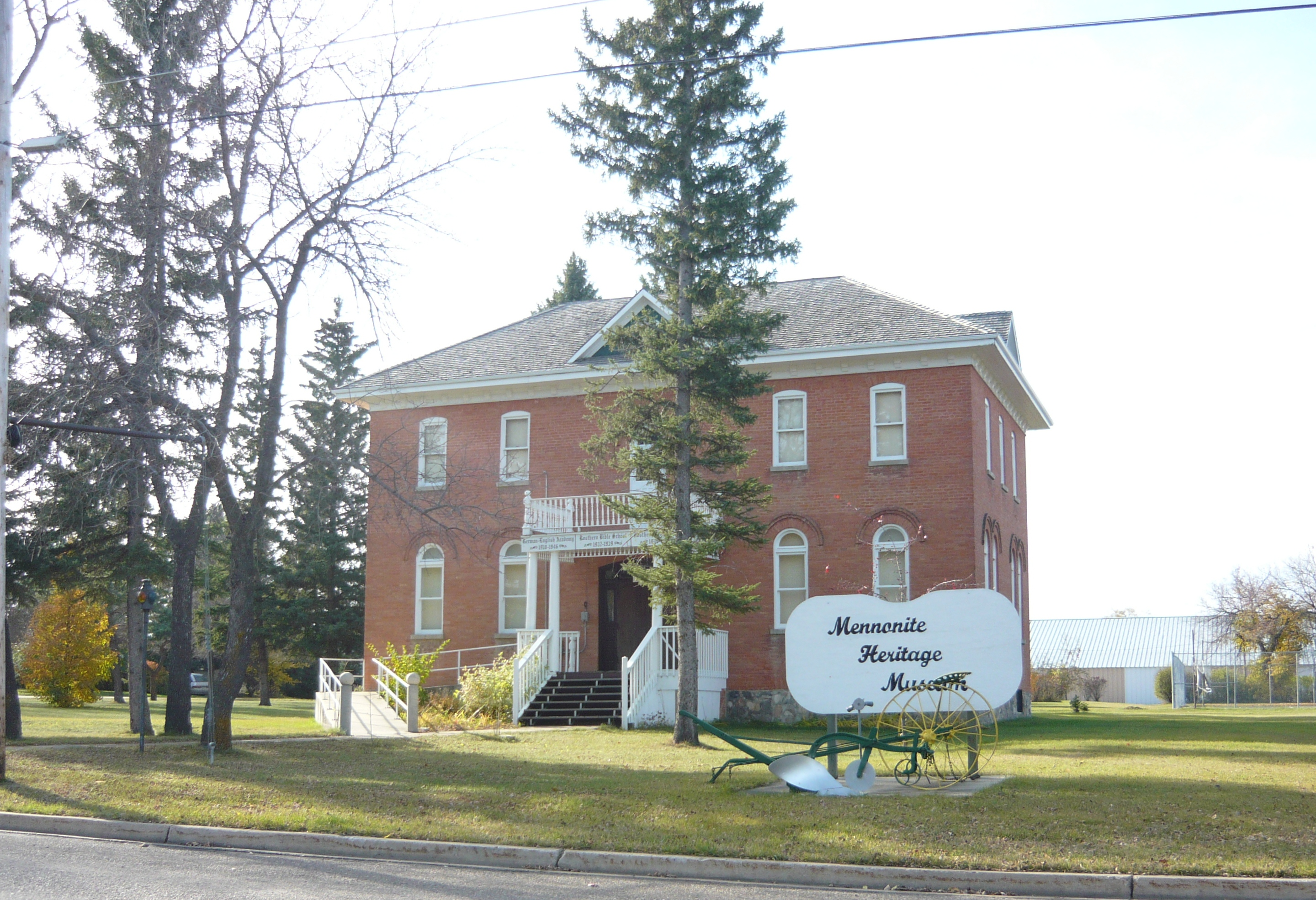 Rosthern Mennonite Heritage Museum, Sixth Avenue, Rosthern, Saskatchewan, Canada. Built 1910. Previously known as "German-English Academy", "Rosthern Bible School", and "Rosthern Junior College".